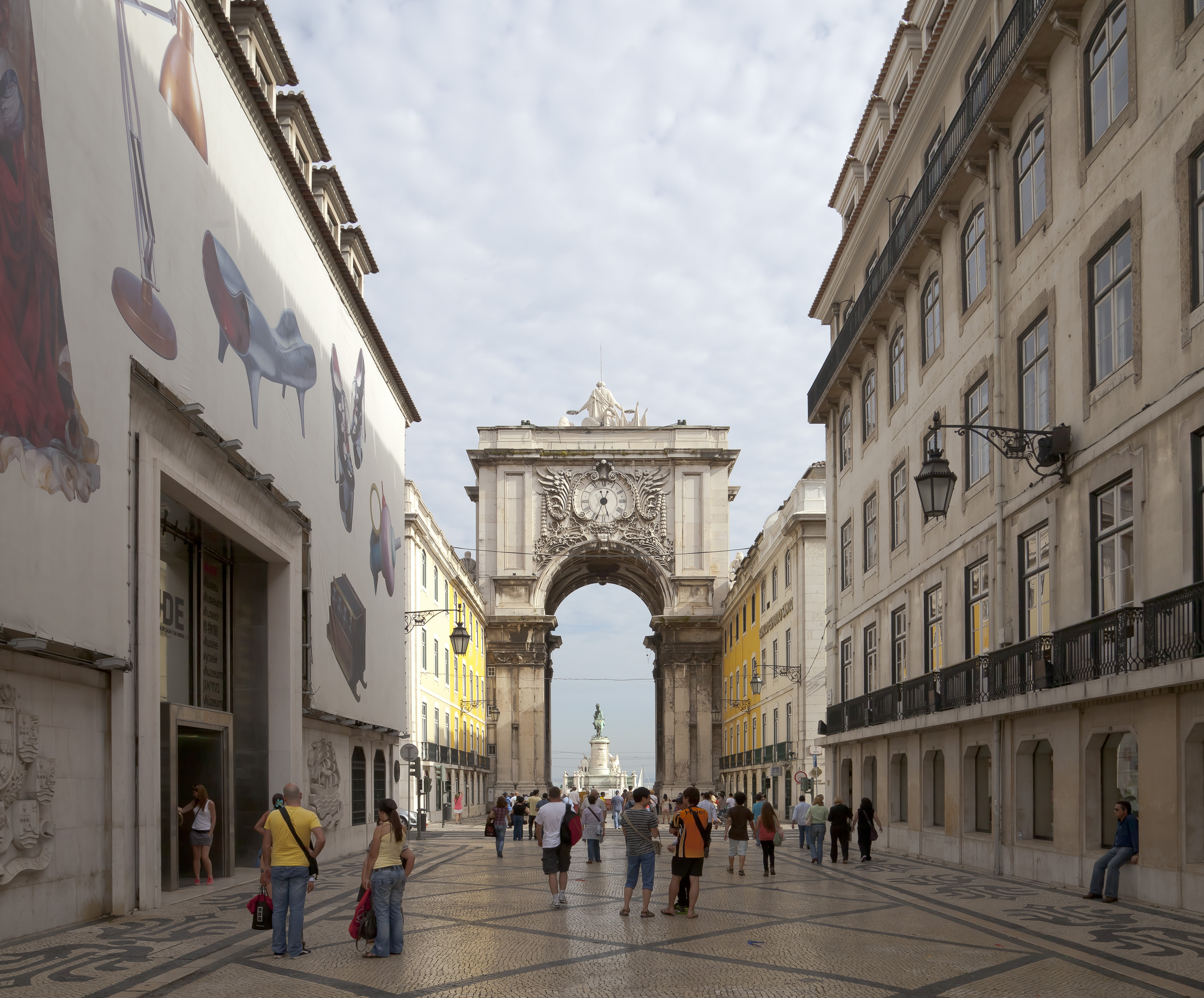 Triumph Arch in Rua Augusta, Lisbon, Portugal